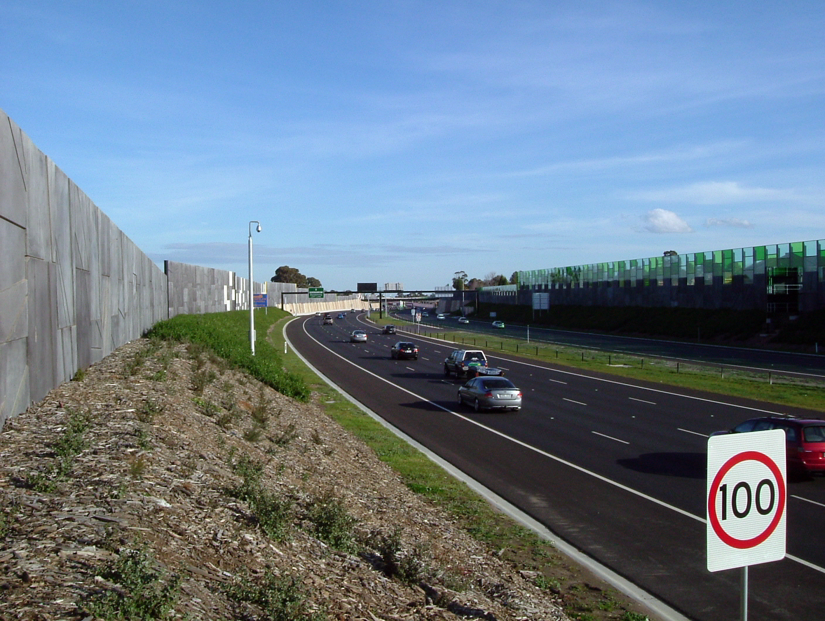 A view to the south of the EastLink tolled freeway with a 100km/h speed limit sign located in the foreground.